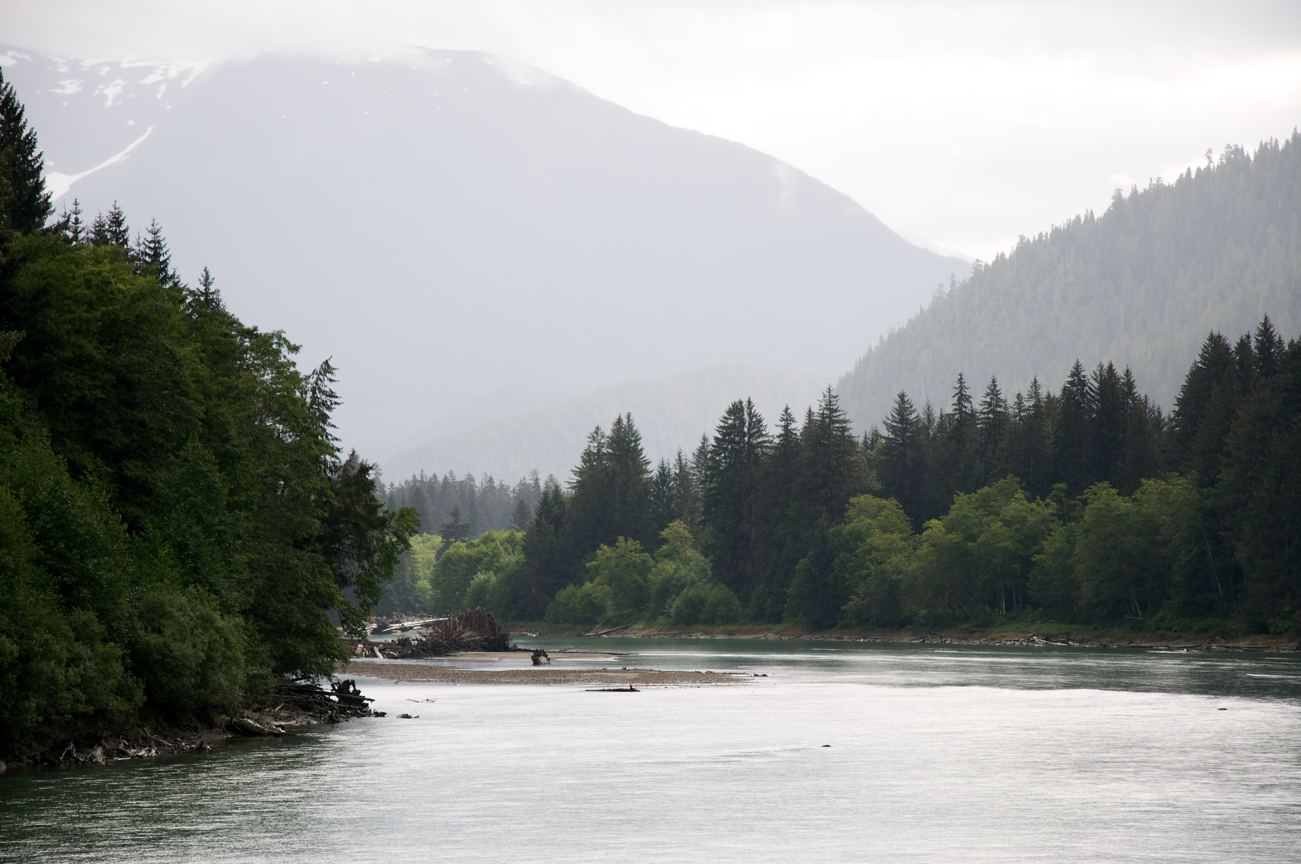 The Kitlope River, within the Kitlope Wilderness Conservancy